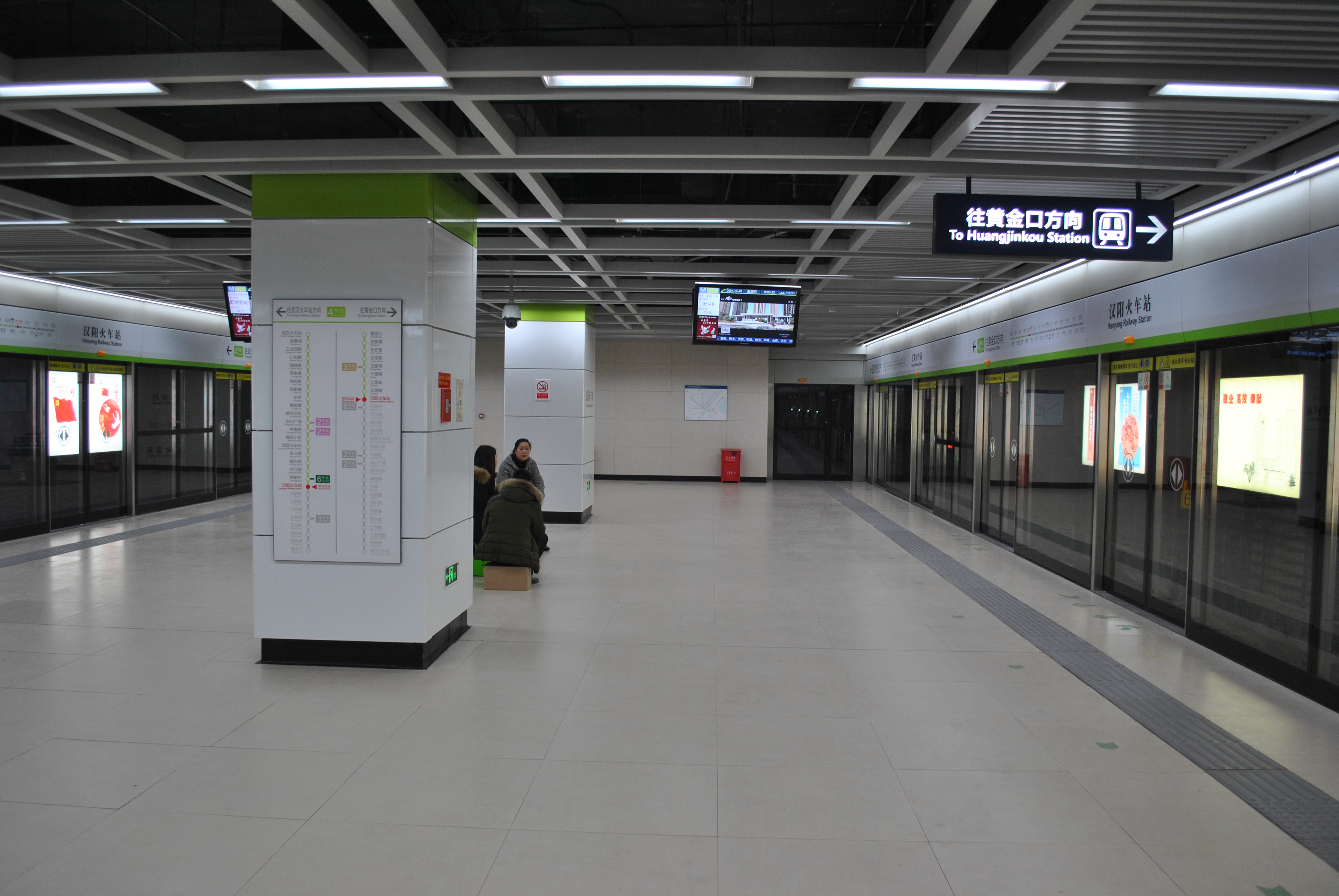 Hangyang Railway Station